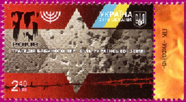 Знаки поштової оплати України 2016